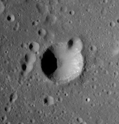 LROC image WAC No. M118939946ME. Calibrated by LROC_WAC_Previewer.